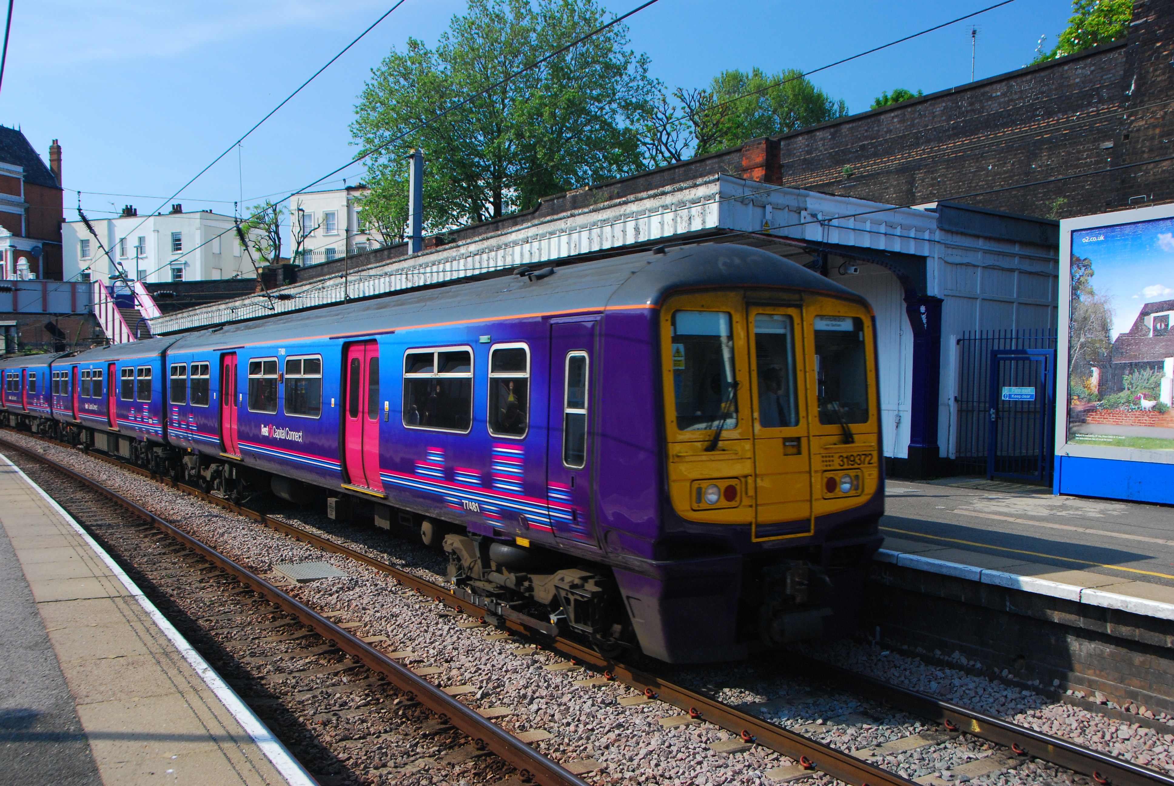 First Capital Connect 319 372 at Kentish Town with a service towards St.Pancrass